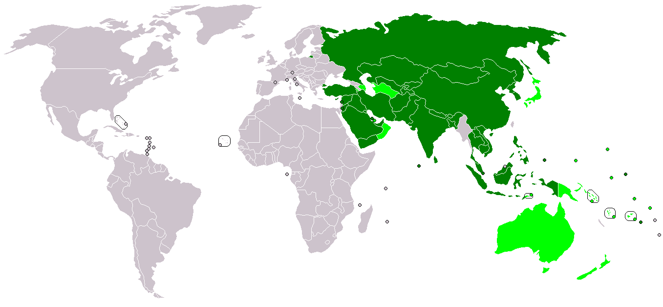 dark green - members; light green - observers